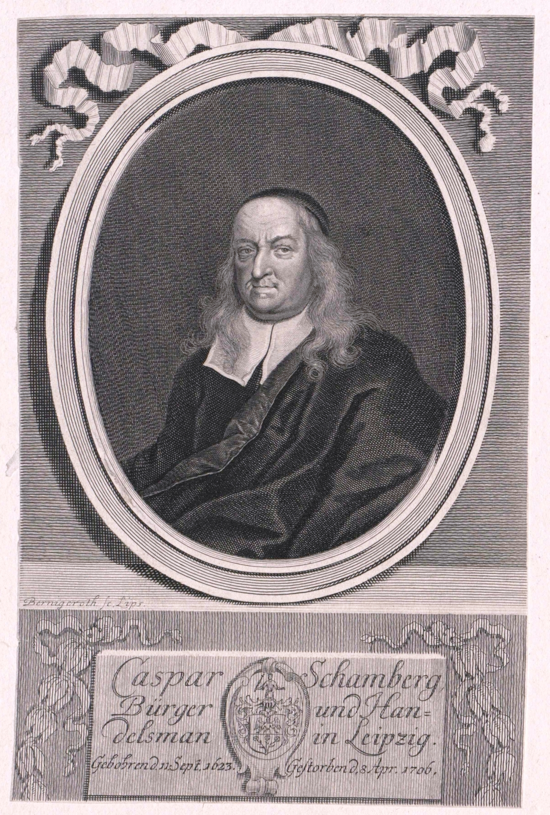 Caspar Schamberger (1623-1706). Copper plate by Martin Bernigeroth, Leipzig 1706